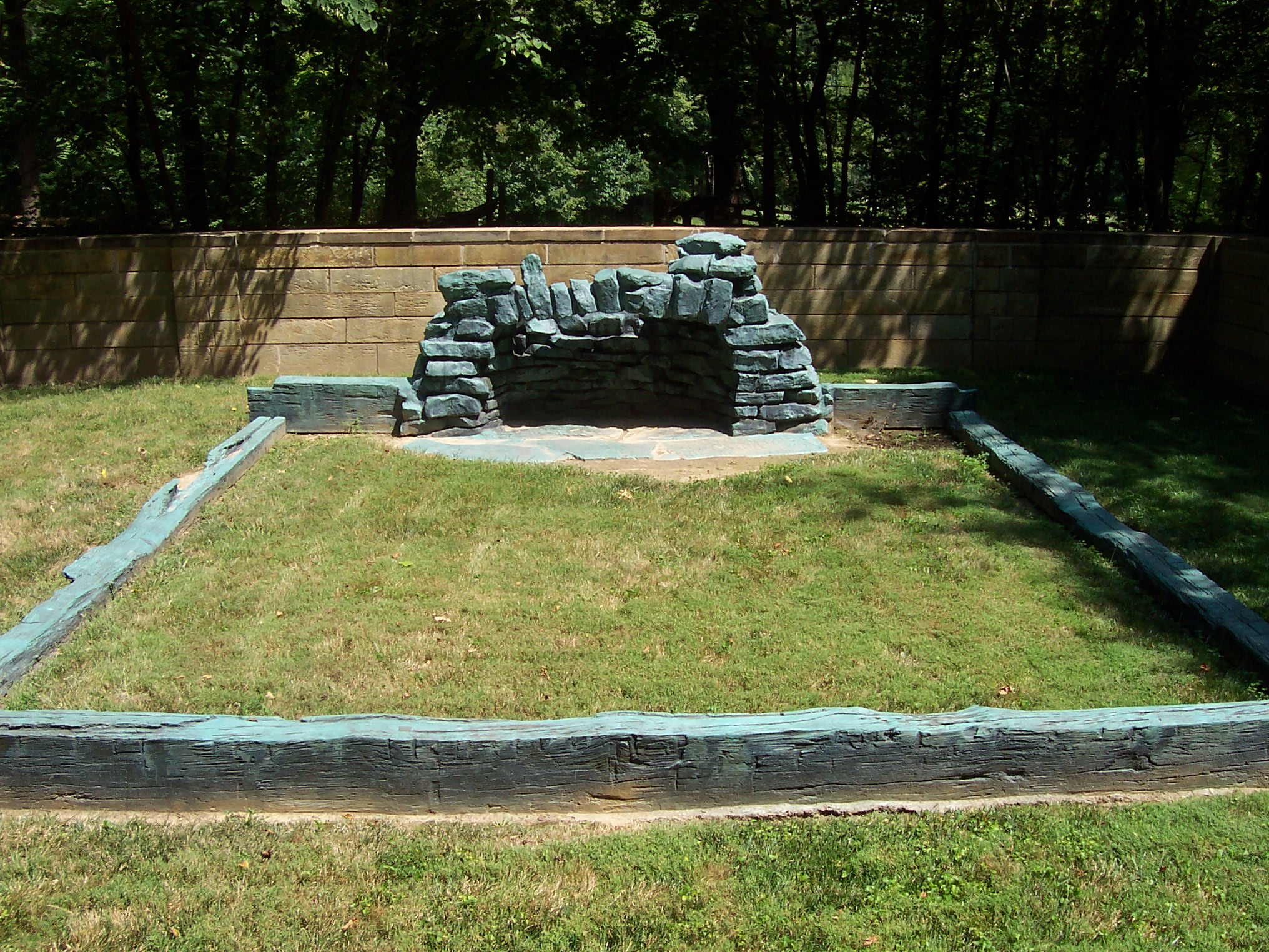 the foundation, all that remains, of the Lincoln's Indiana home